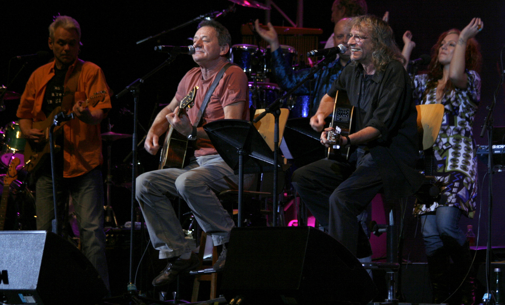 Austrian musicians (left to right): Ulli Bäer, Wolfgang Ambros, Gary Lux, Schiffkowitz und Anita "Niddl" Ritzl; charity concert 'atemberaubend 08' in support of researching pulmonary hypertension (lungenhochdruck.at) at the Wiener Stadthalle.